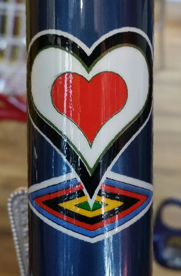 De Rosa (bicycles) head badge